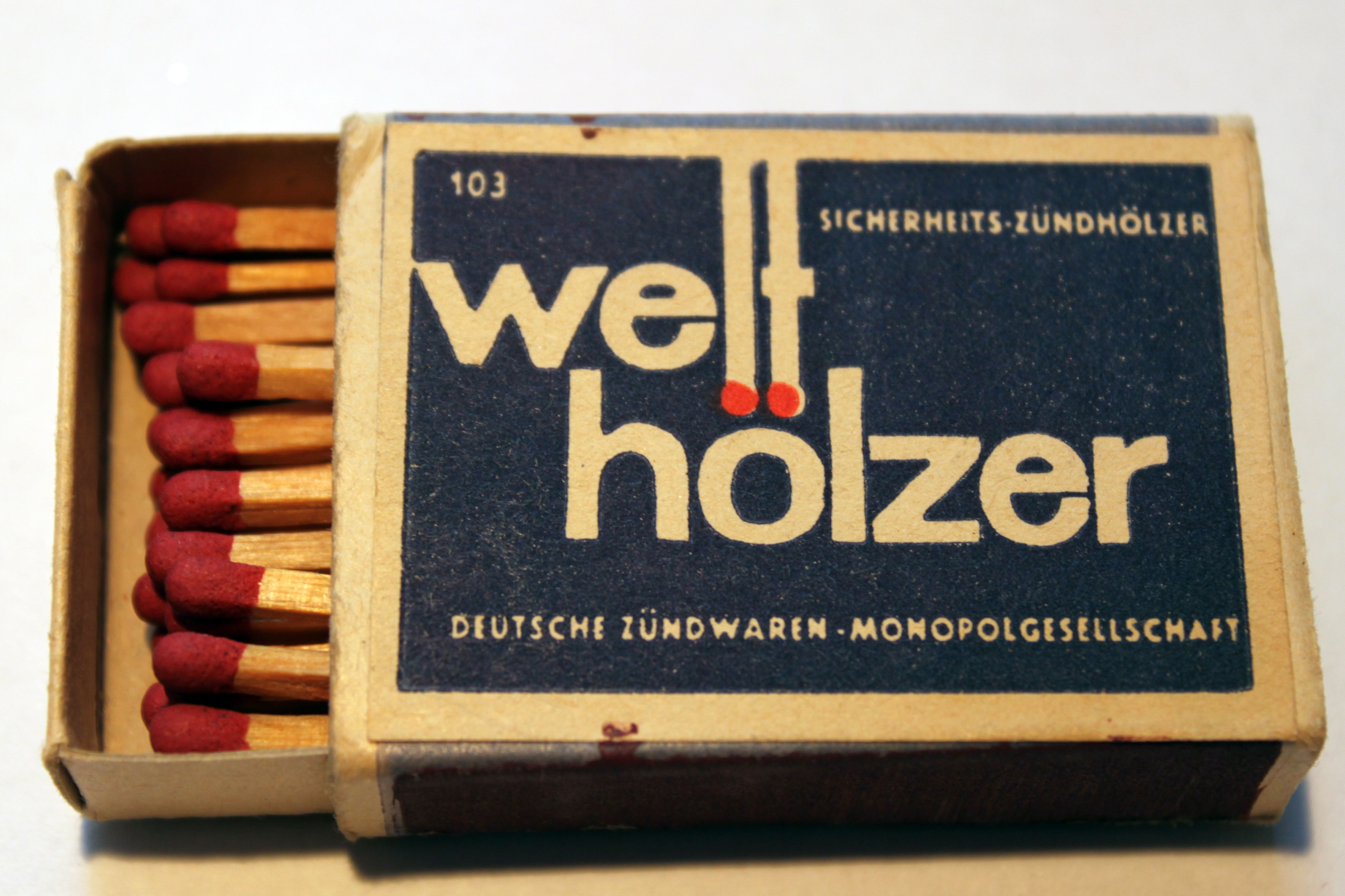 Matchbox "Welthözer"